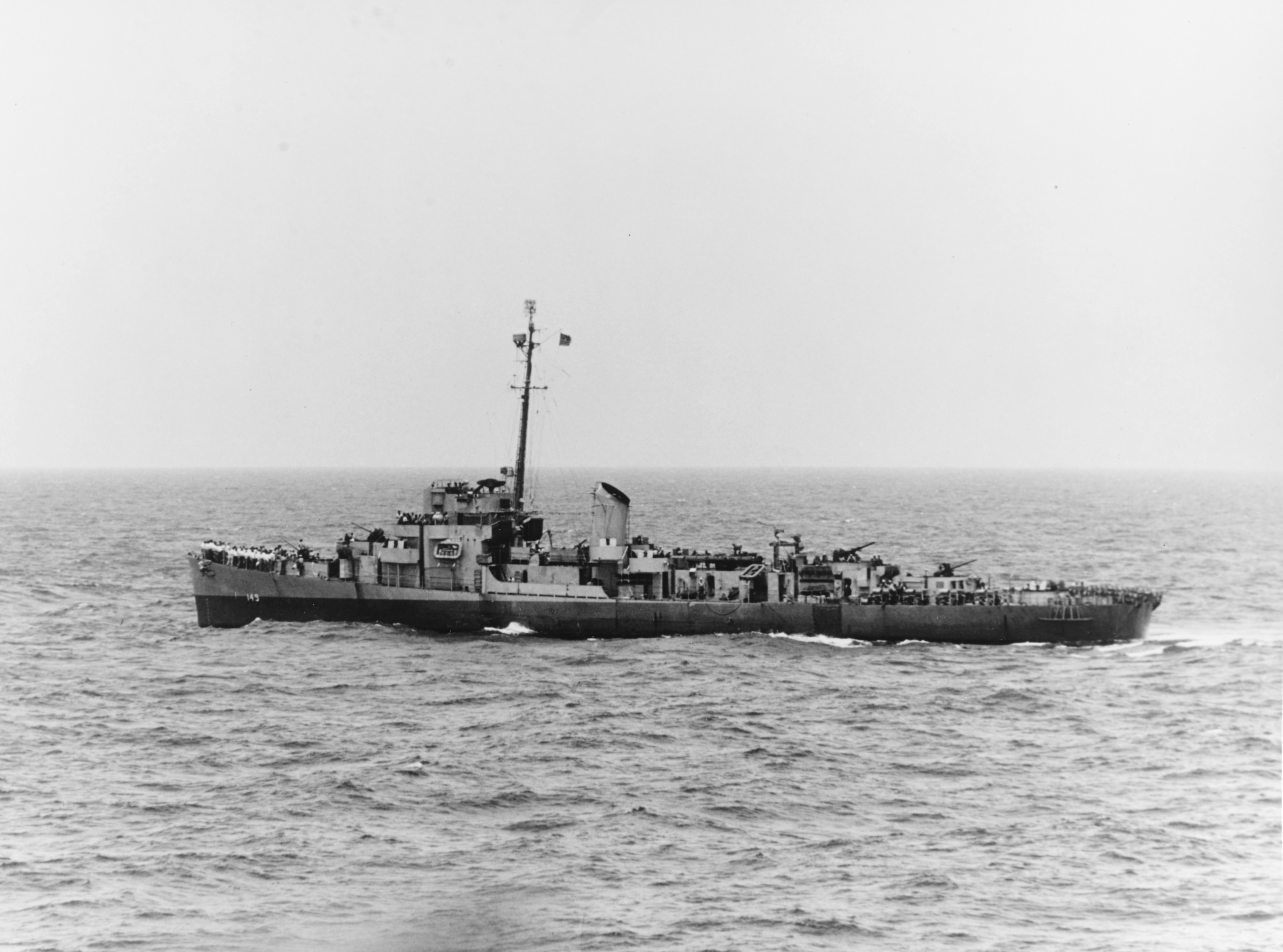 The U.S. Navy destroyer escort USS Chatelain (DE-149) underway with survivors of the captured German submarine U-505 on her forecastle, 4 June 1944.